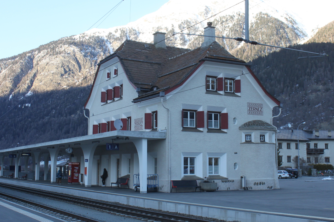 Zernez train station.